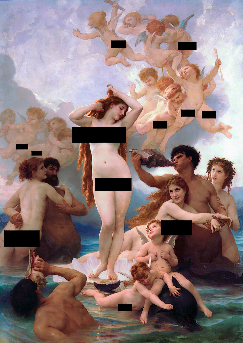 Art & Censorship Censored version of William-Adolphe Bouguereau's The Birth of Venus (1879) Original painting: Oil on canvas, 300 cm × 218 cm (120 in × 86 in), Collection of the Musée d'Orsay, Paris